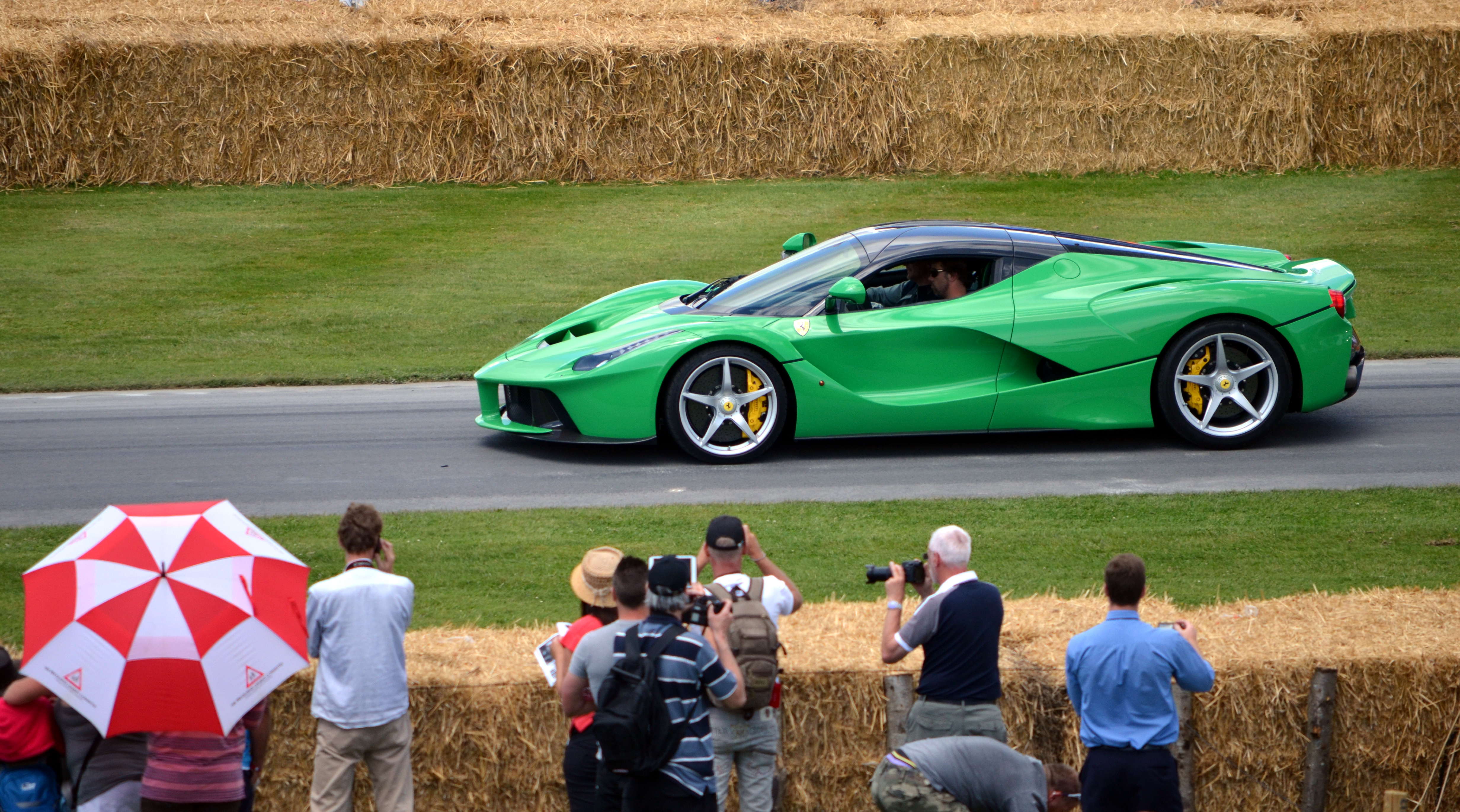 Jay Kay of Jamiroquai driving his green LaFerrari at the 2014 Goodwood Festival of Speed.